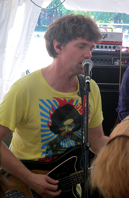 The Lemonheads at RadioBDC's "Island In The Sun" event on Thompson Island in Boston Harbor on Saturday, August 23rd, 2014.